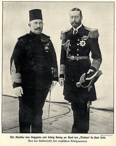 Khedive Abbas II of Egypt and King George V aboard HMS Medina during the ship's stopover at Port Said in December 1911. King George was sailing to India to be formally proclaimed Emperor of India in Delhi. Photo published in a German magazine.